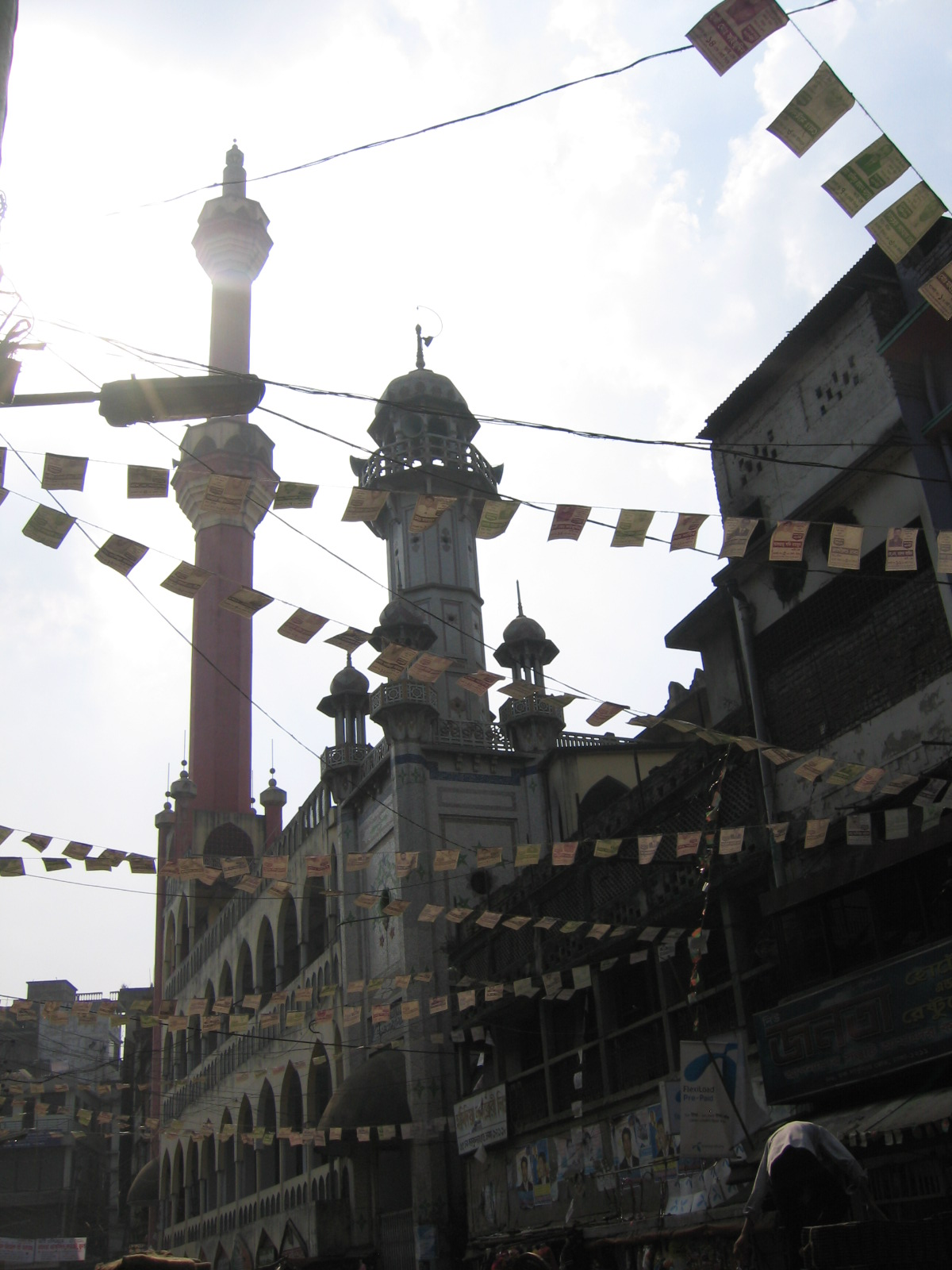 Chawkbazar Shahi Mosque, a Moghal era mosque (estd. 1676) in Old Dhaka, Bangladesh